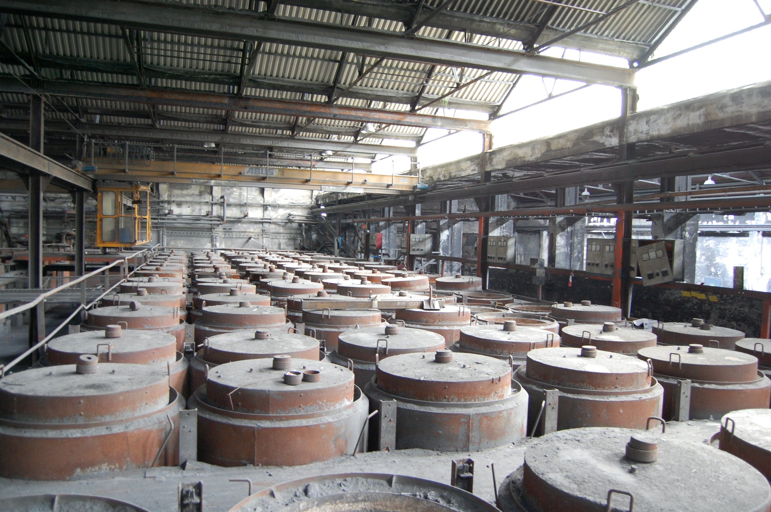 325 Cyanamide kilns (Frank-Caro process) at Furnace house II and III, Odda Smelteverk